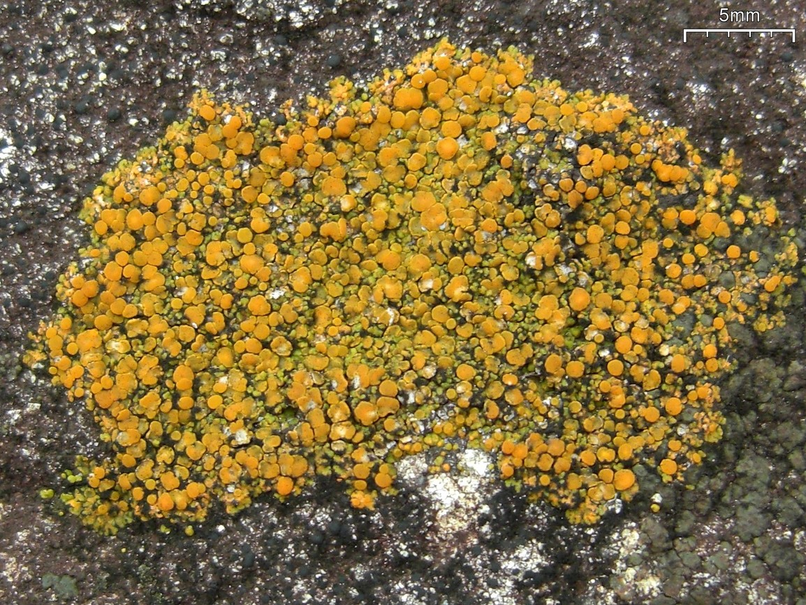 Caloplaca sp. 20100312.31 US, GA, near Augusta, Burks Mountain Still awaits the microscope...